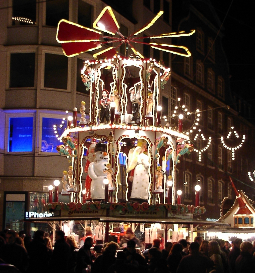 Duesseldorf christmas fair